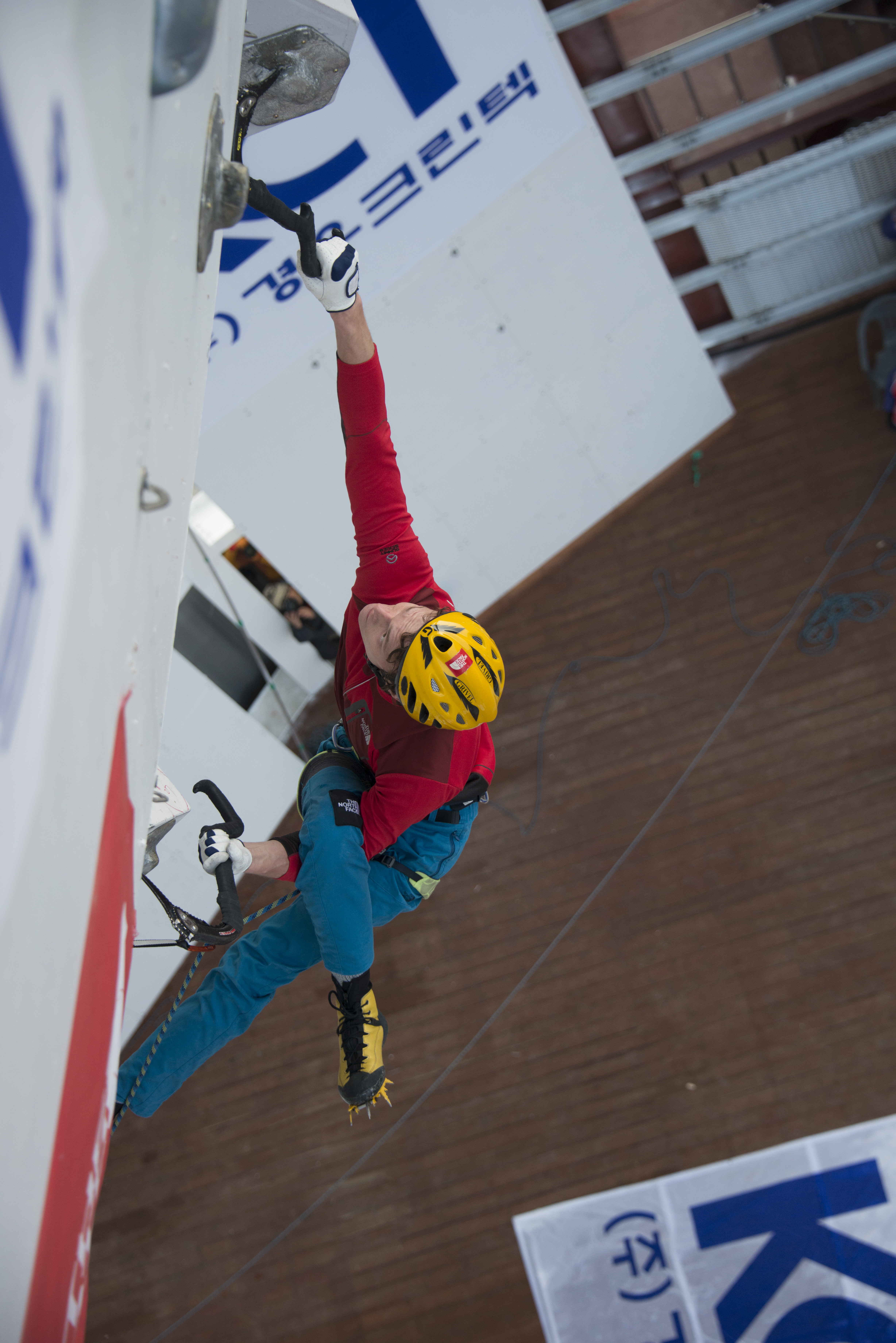 Sponsored by The North Face Korea. Cheongsong, 16-17 January, 2016 Copyright: Leah Kang for the UIAA